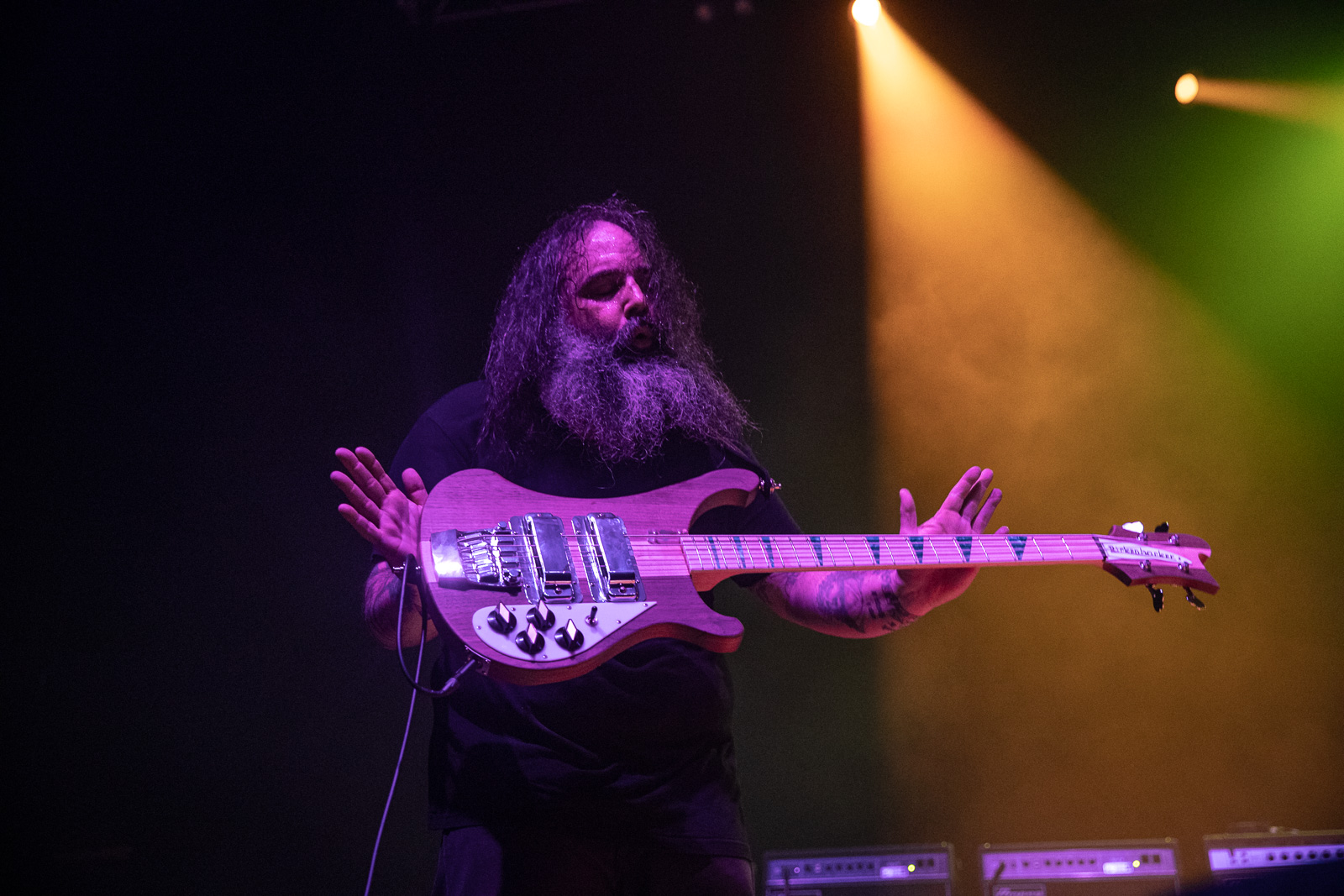 Al Cisneros and his signature Rickenbacker bass, playing with Sleep at State Theatre in Portland ME on April 20th, 2019.